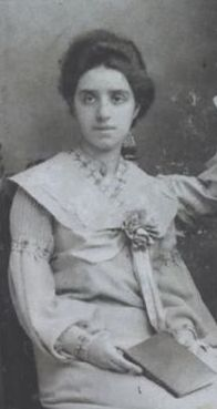 Hedwig Jung-Danielewicz (1880-1942)